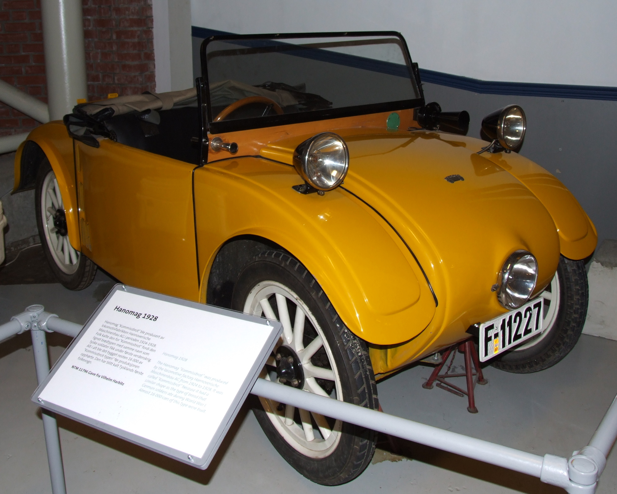 Hanomag Kommissbrot vehicle, 1928 year. Oslo, Norway